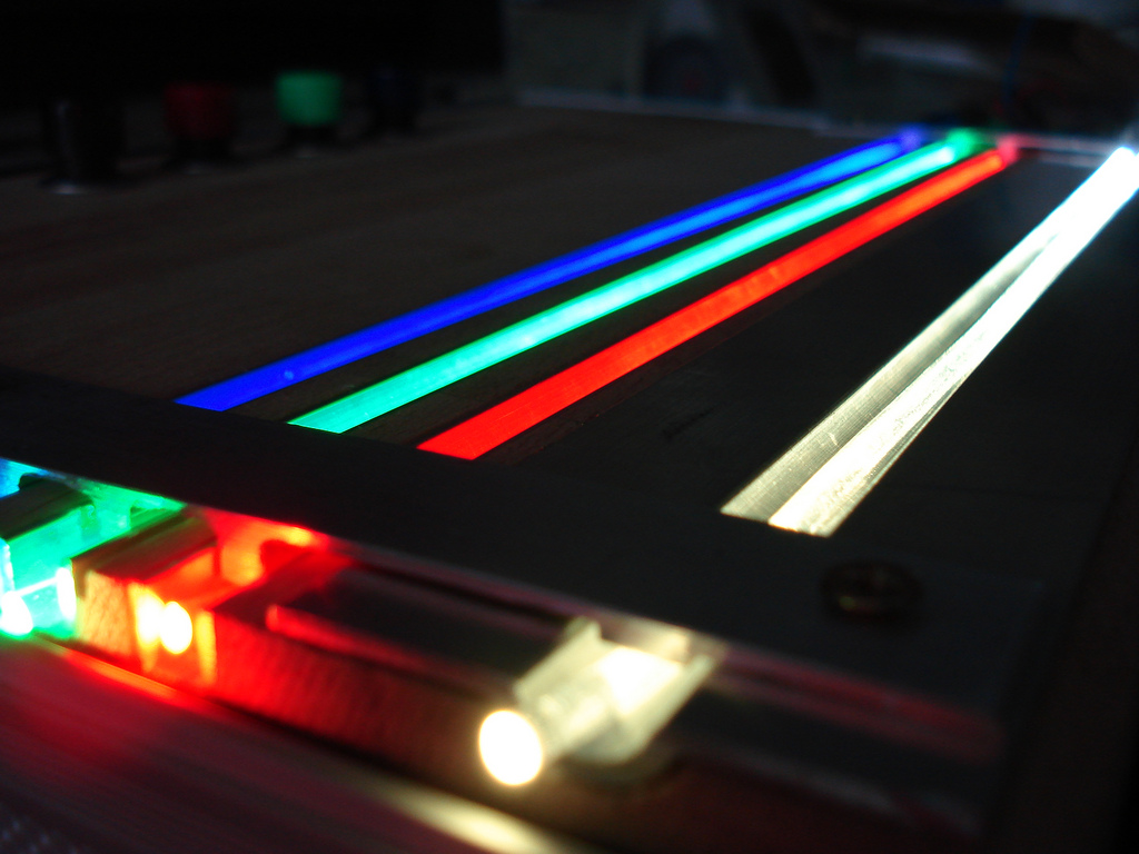 Polymeric light fibers